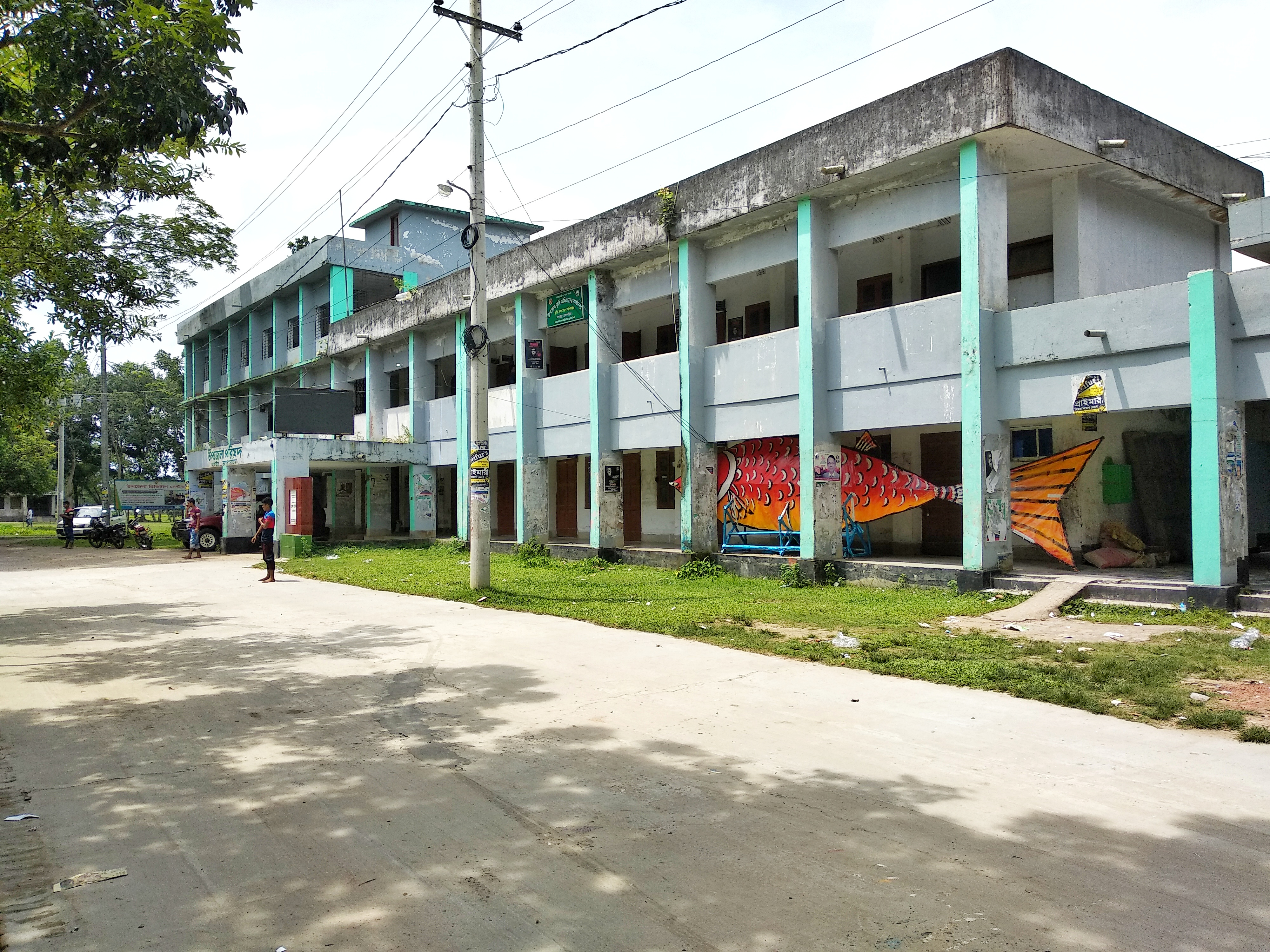 Akhaura Upazila Parishad